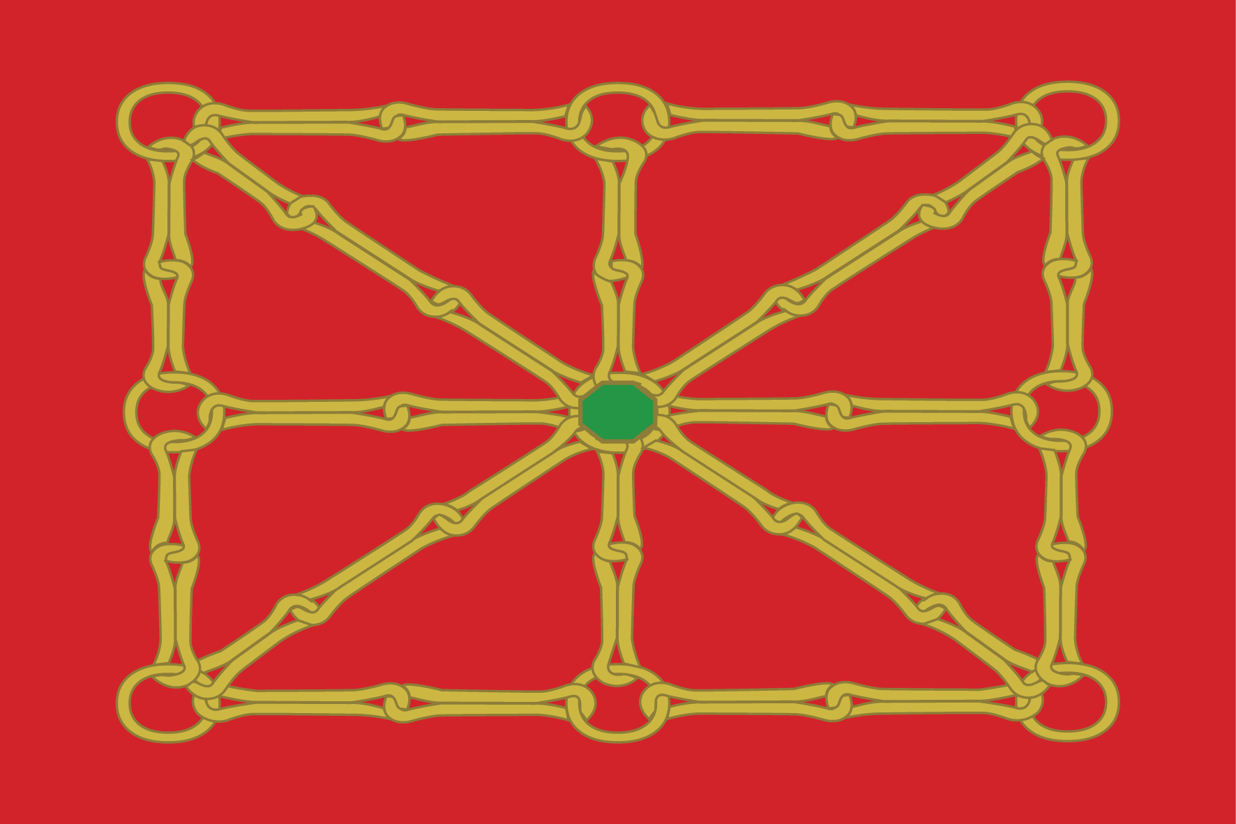 Flag of Navarre